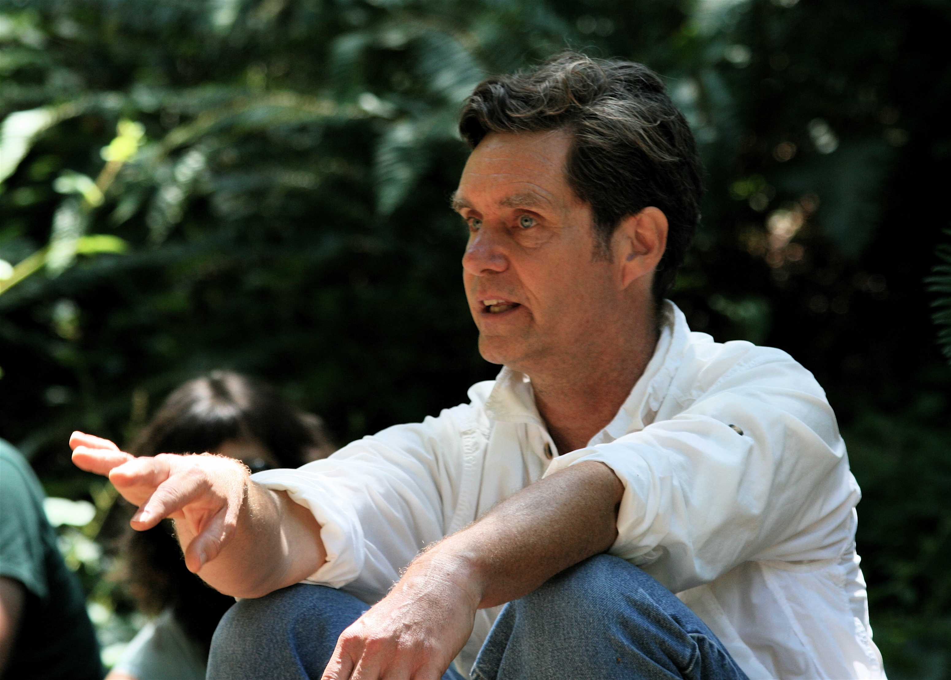 Audio masking effects: from gurgling waterfalls to random talking crowds.